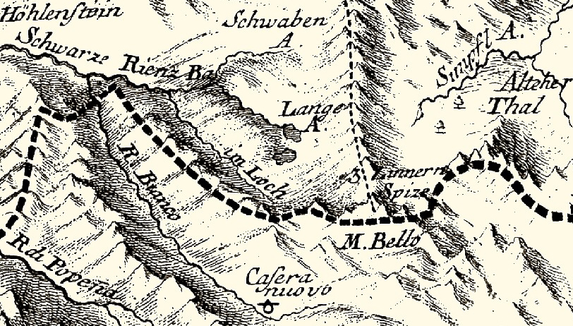 Atlas Tyrolensis: The area around Tre Cime di Lavaredo